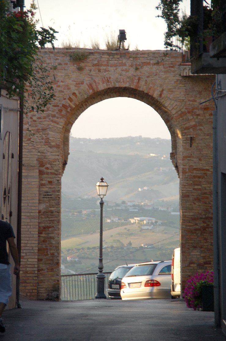 Sant Angelo